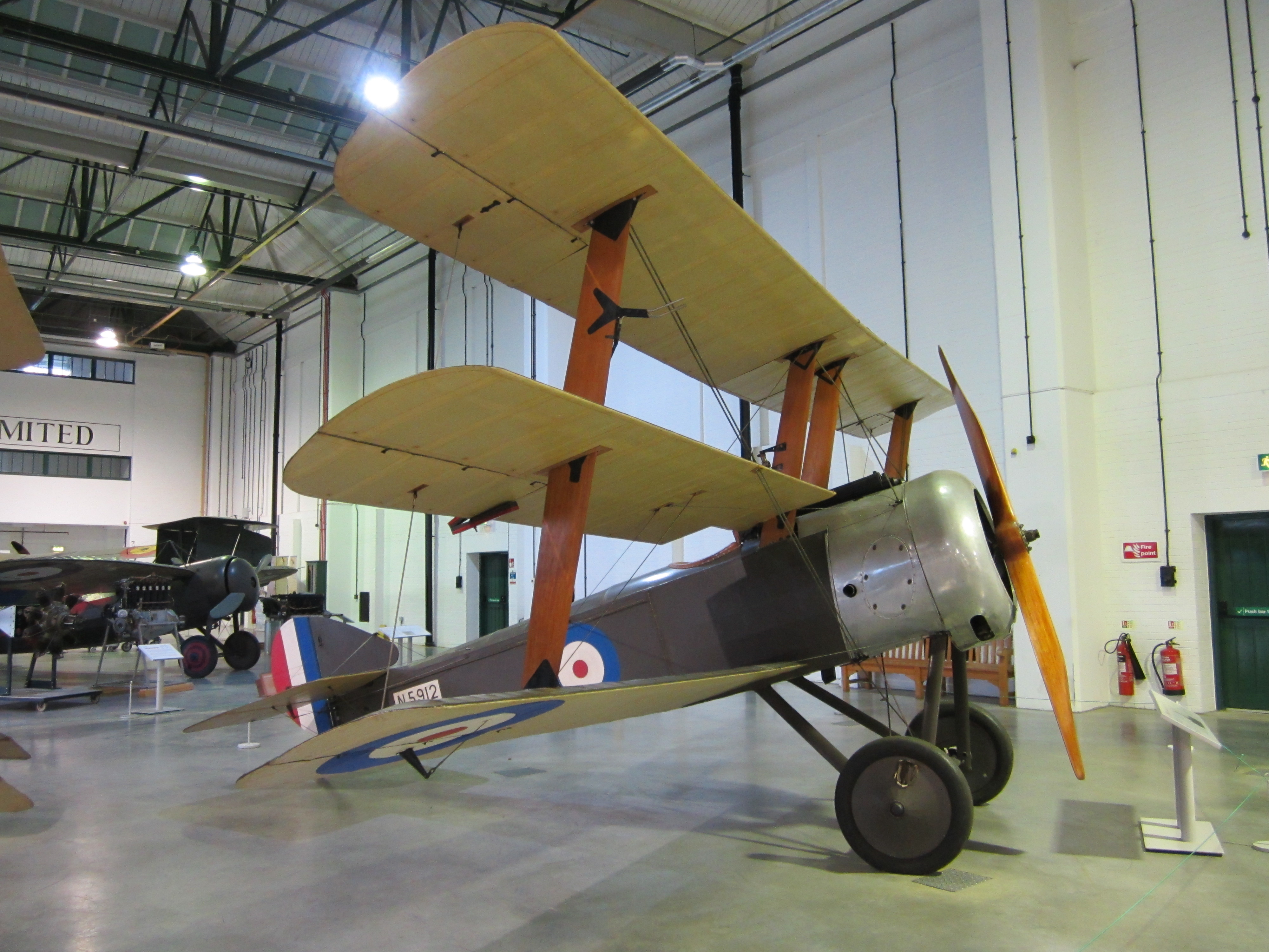 A Sopwith Triplane on display at RAF Museum London in November 2011